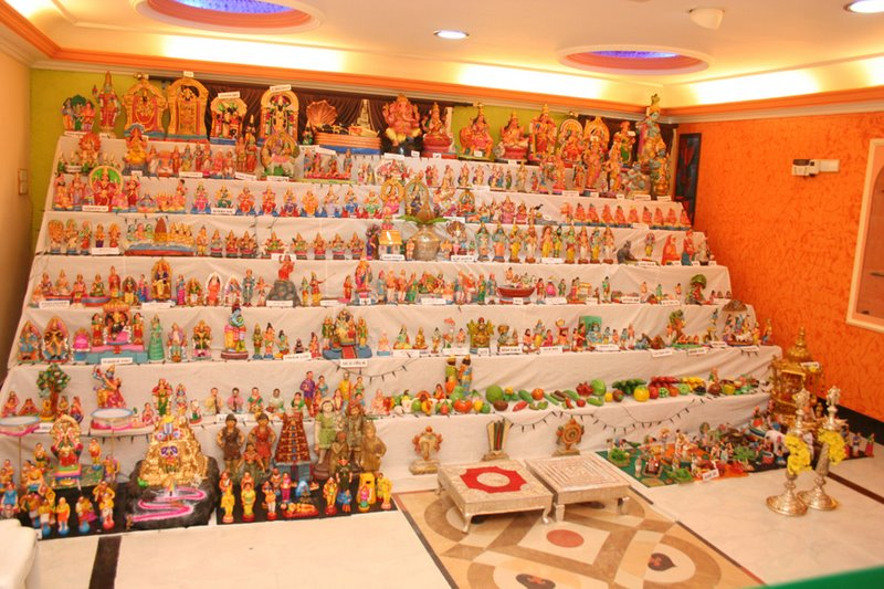 Navratri Golu from V.VIJAYAKRISHNAN